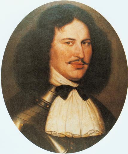 Ewen Cameron of Lochiel (1629-1719)